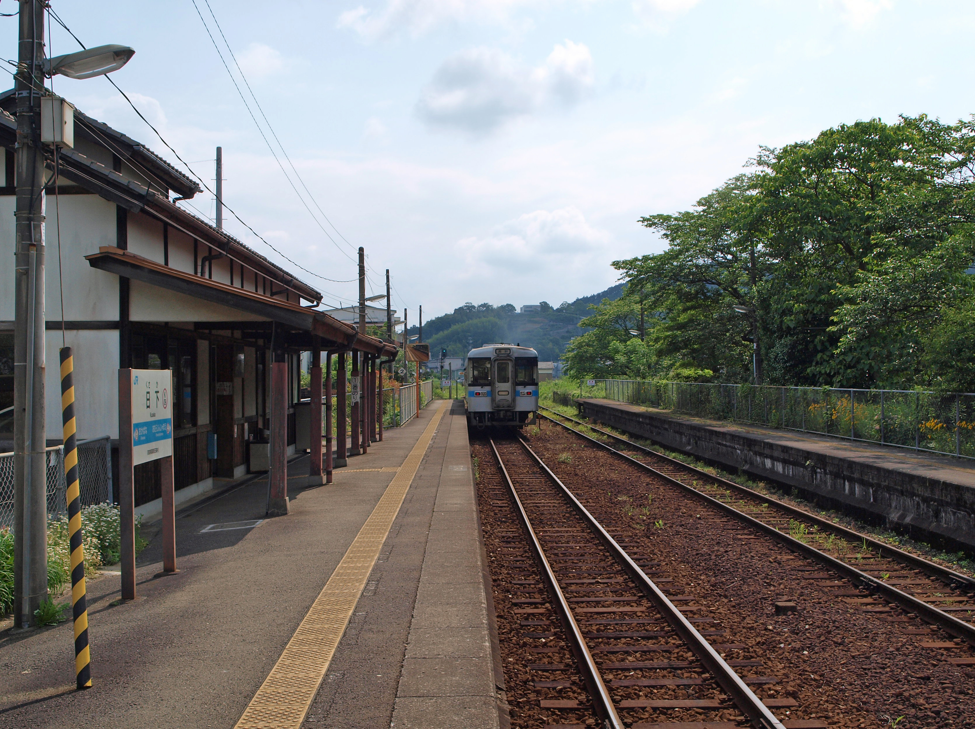 Kusaka station, Dosan-line, JR Shikoku, Japan